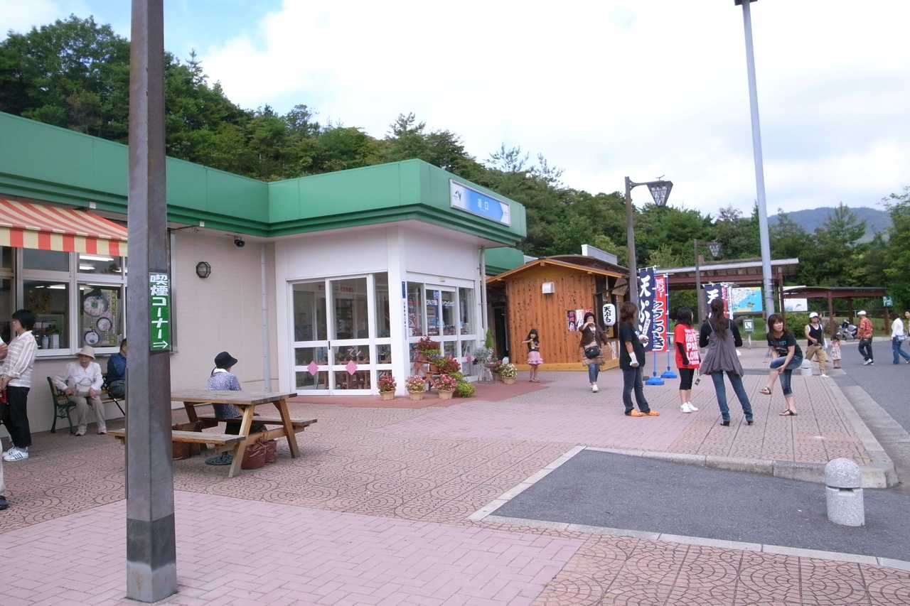 Michiguchi rest area in Kurashiki, Okayama, Japan.